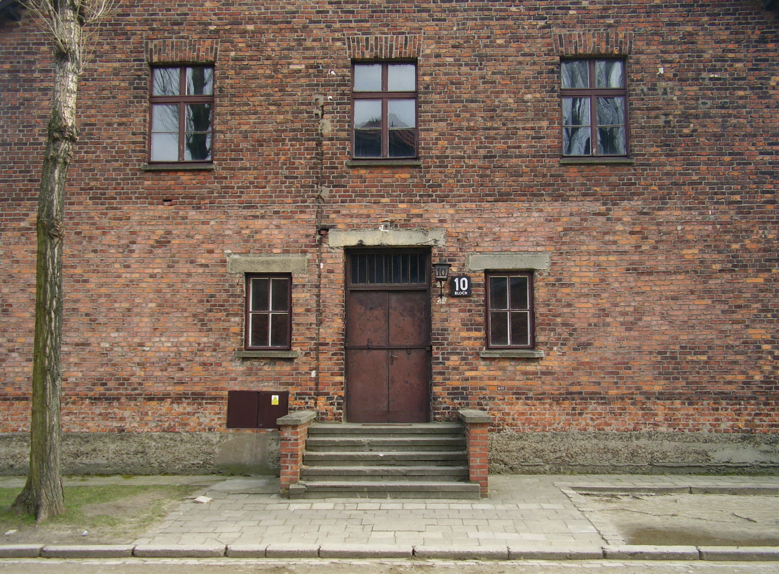 Block 10 - Medical experimentation block in Auschwitz I